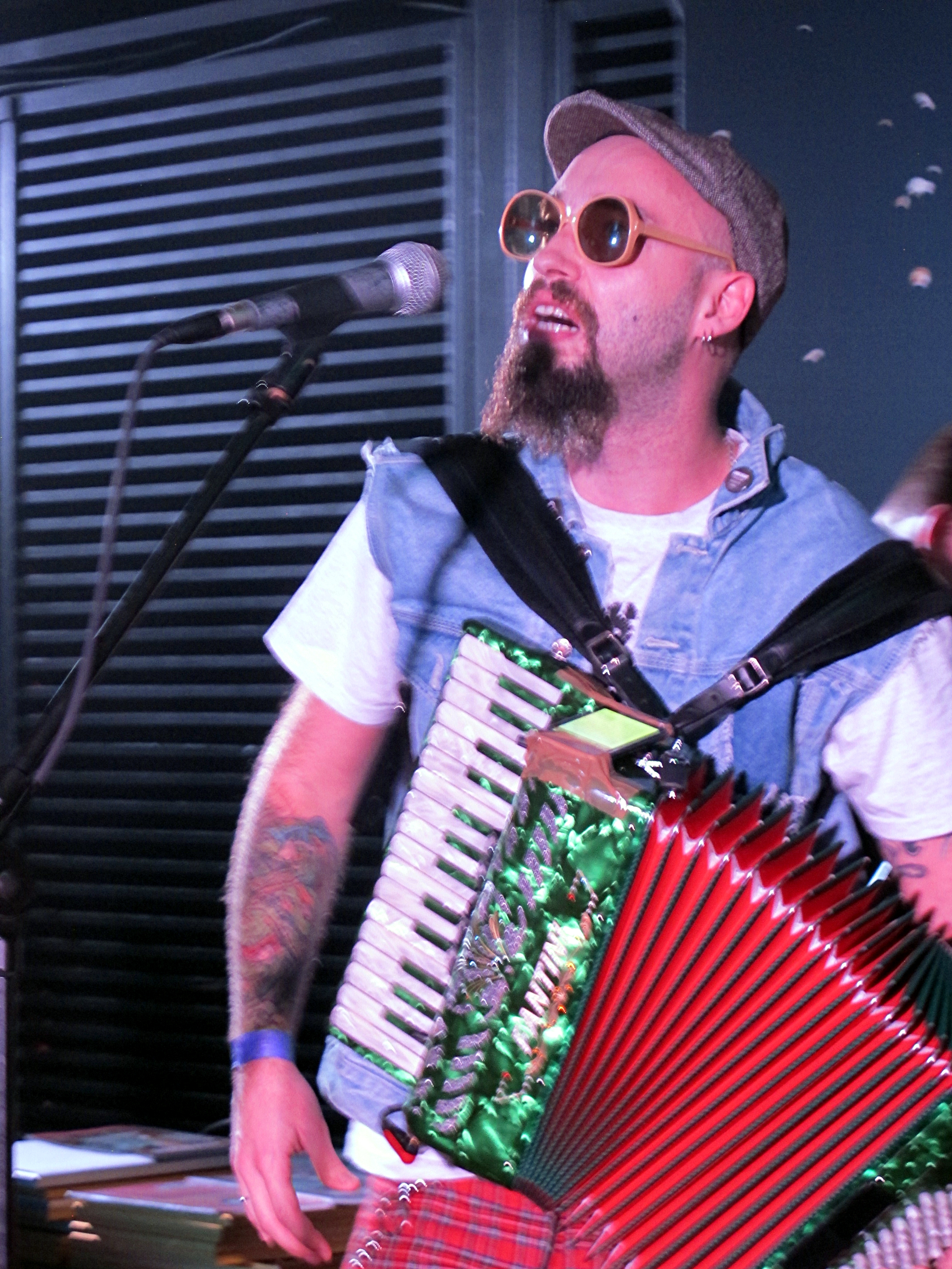 Runet Prize 2014